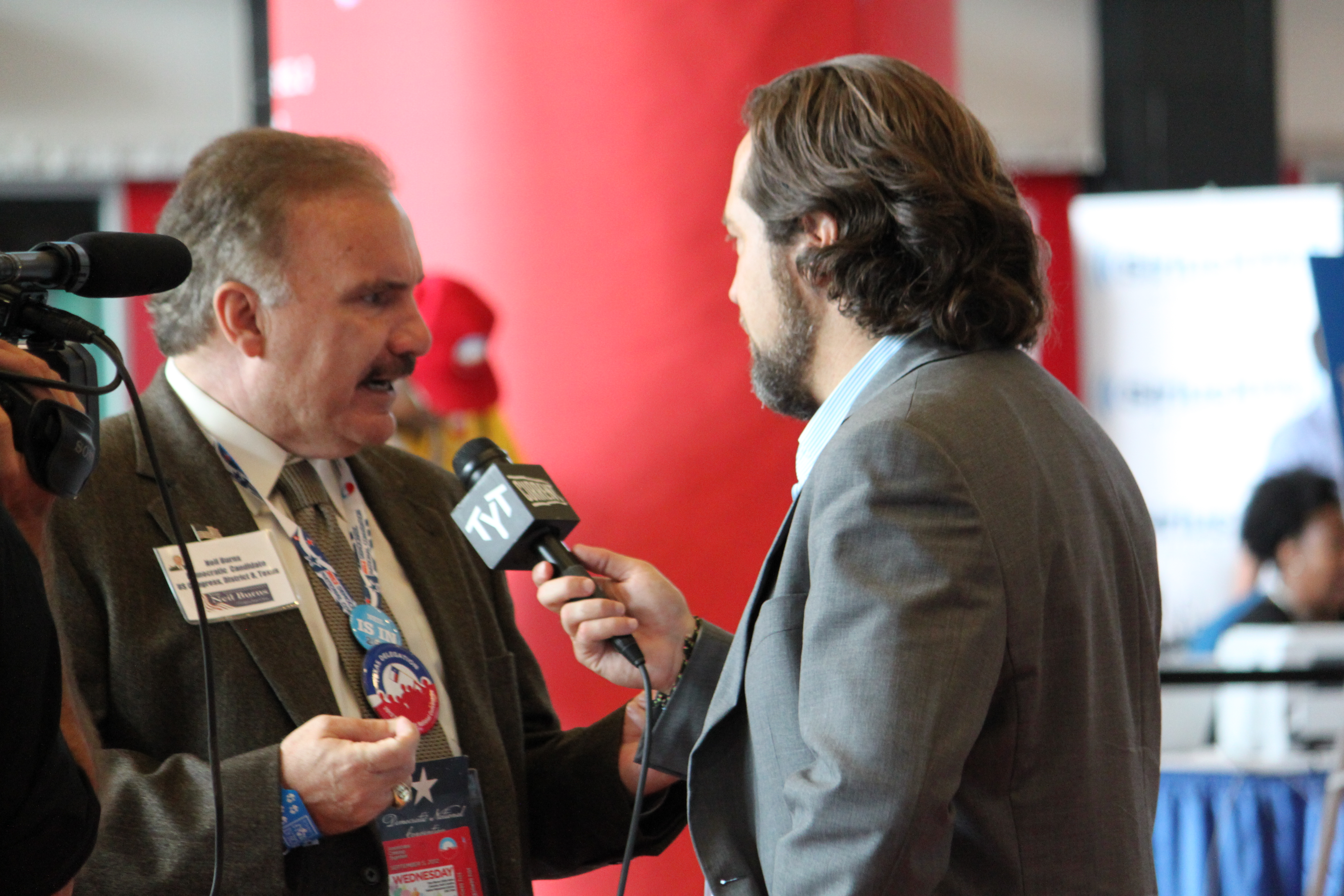 2012 Democratic National Convention: Day 2